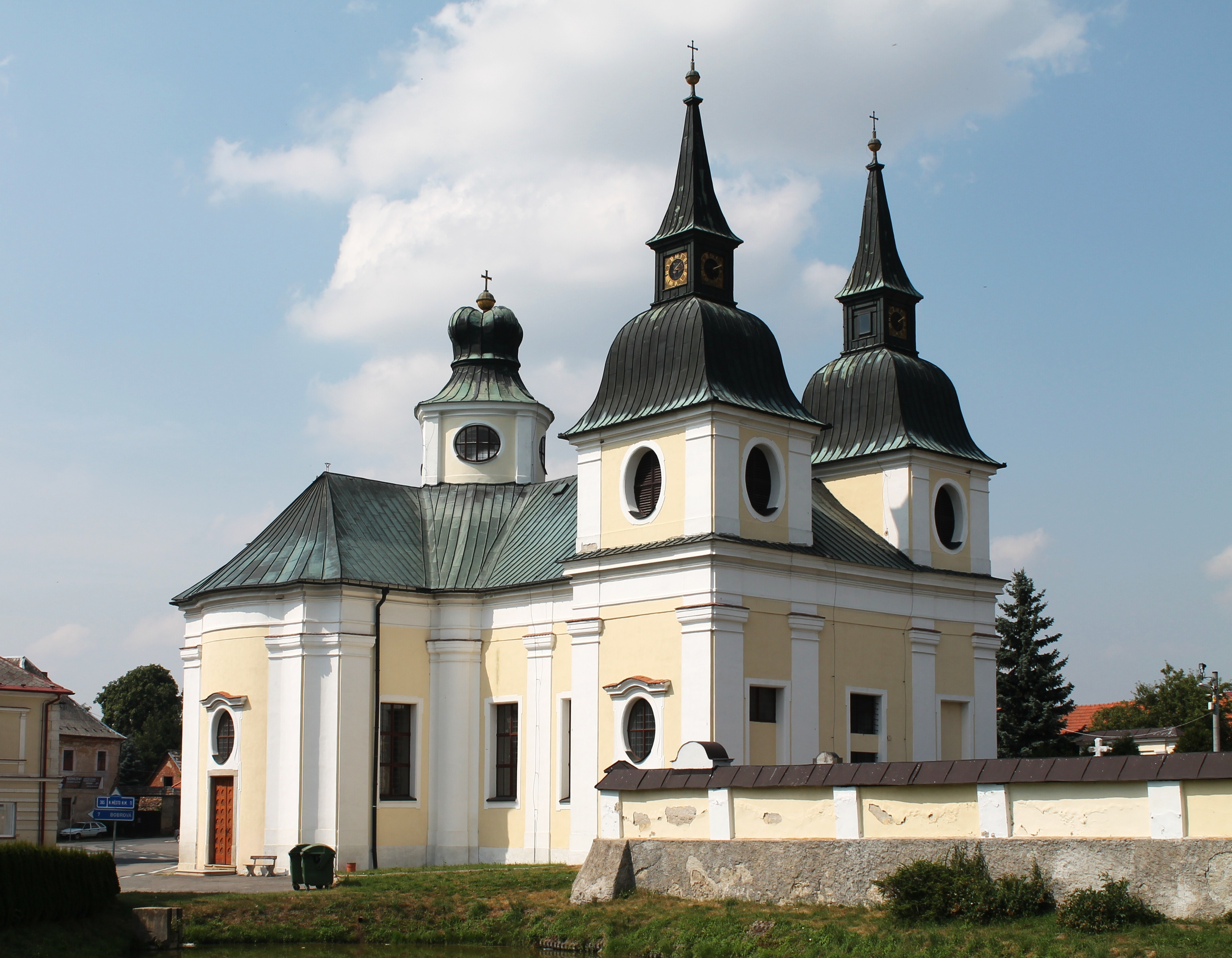 Church of St. Wenceslaus, Zvole, Žďár nad Sázavou District, Czech Republic